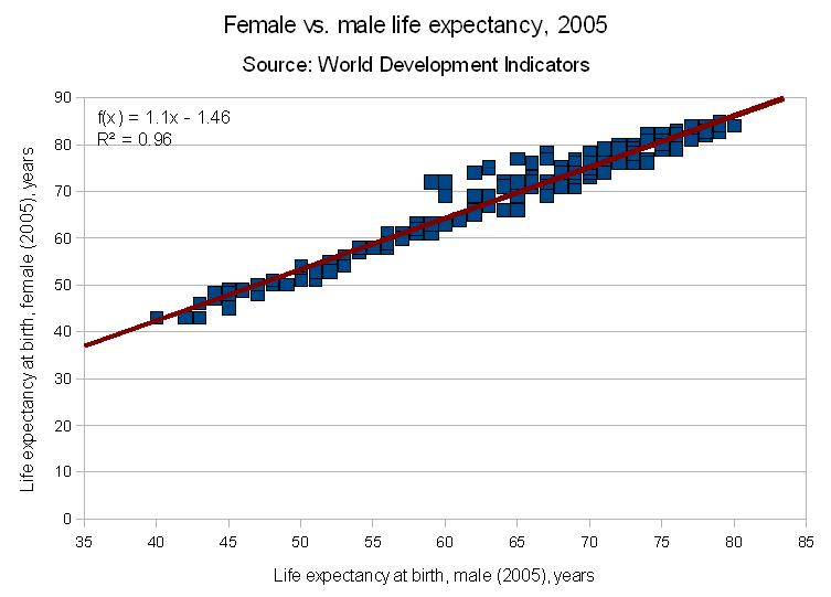 graph of female vs. male life expectancy at birth in 2005